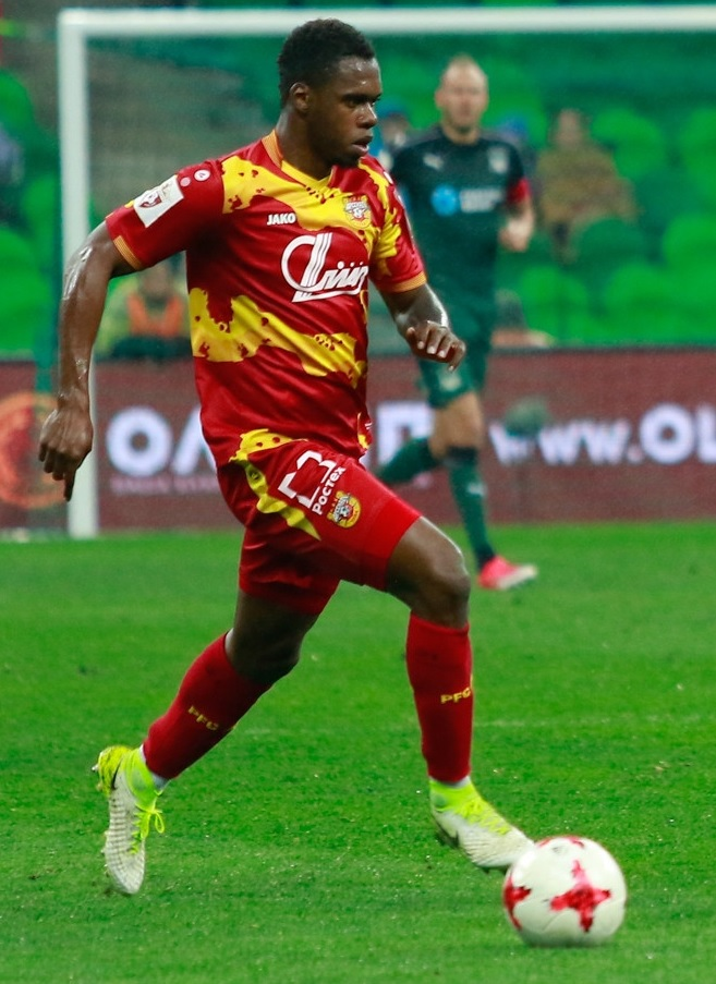 Jherson Vergara with FC Arsenal Tula in a game against FC Krasnodar.